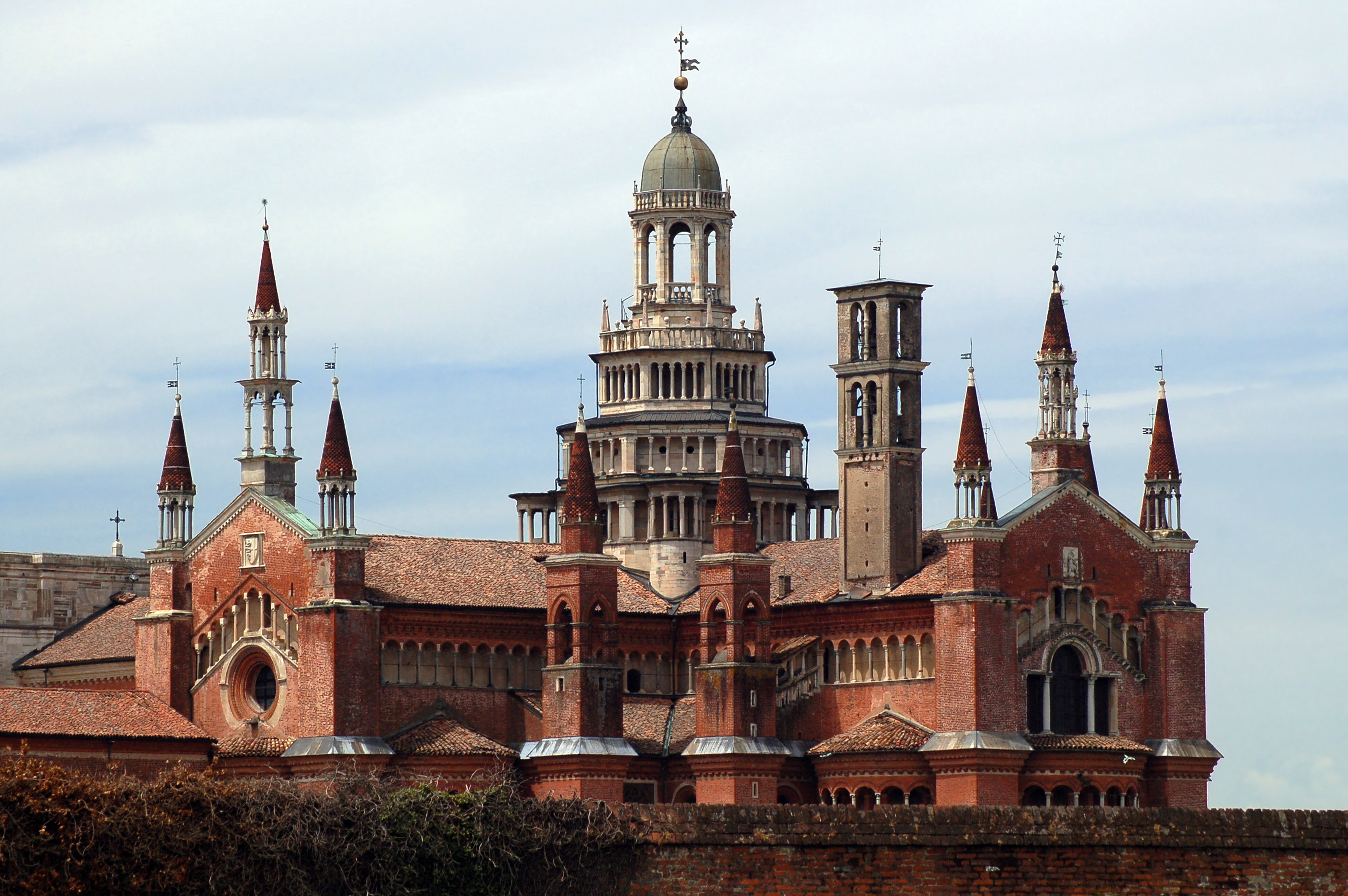 Certosa di Pavia, outside view